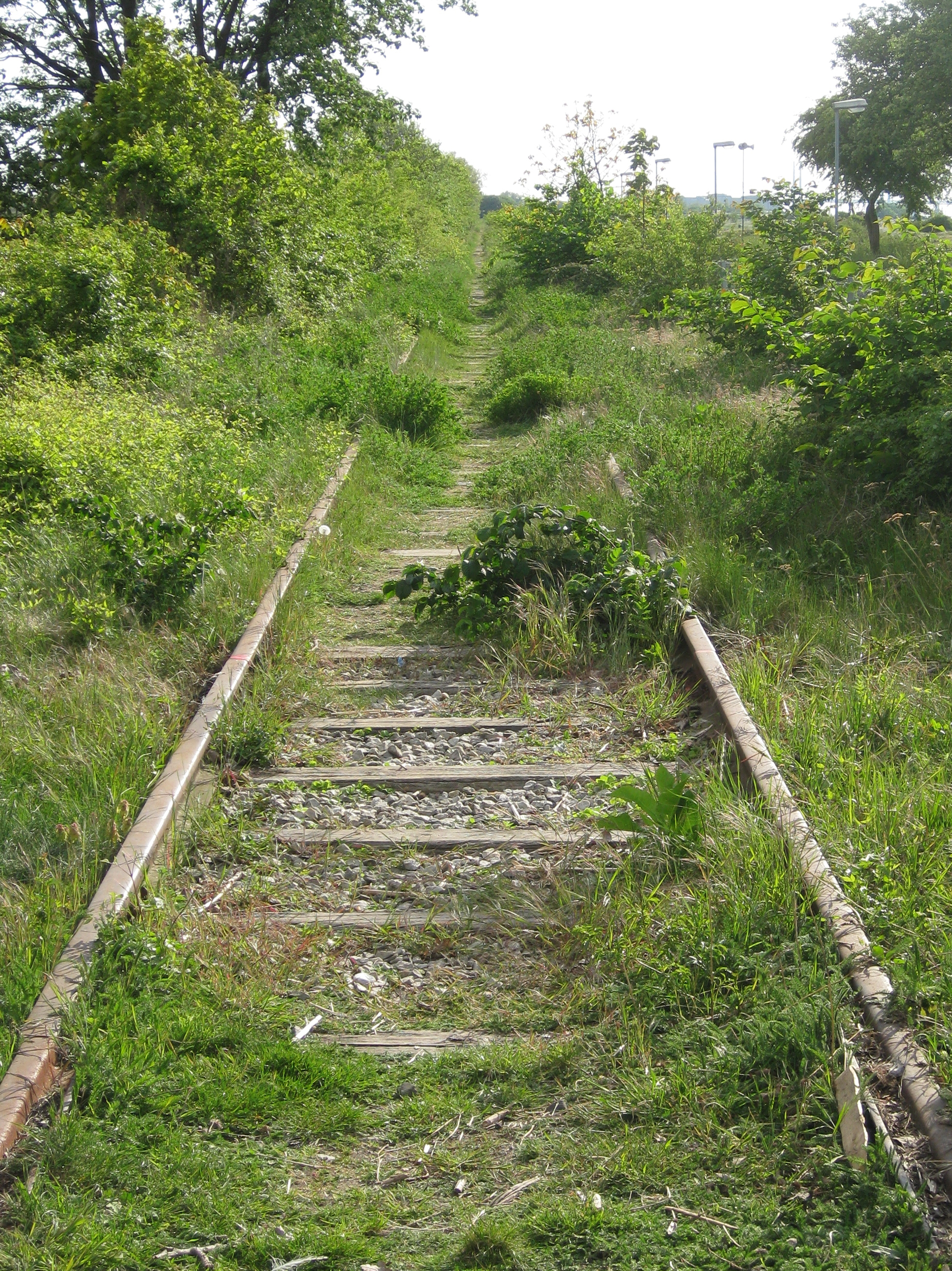 The Limhamn railway in Malmö shortly before dismantling